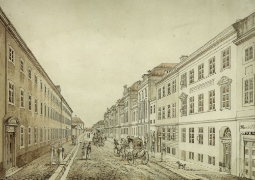 Bredgade at No. 38 in Copenhagen, Denmark